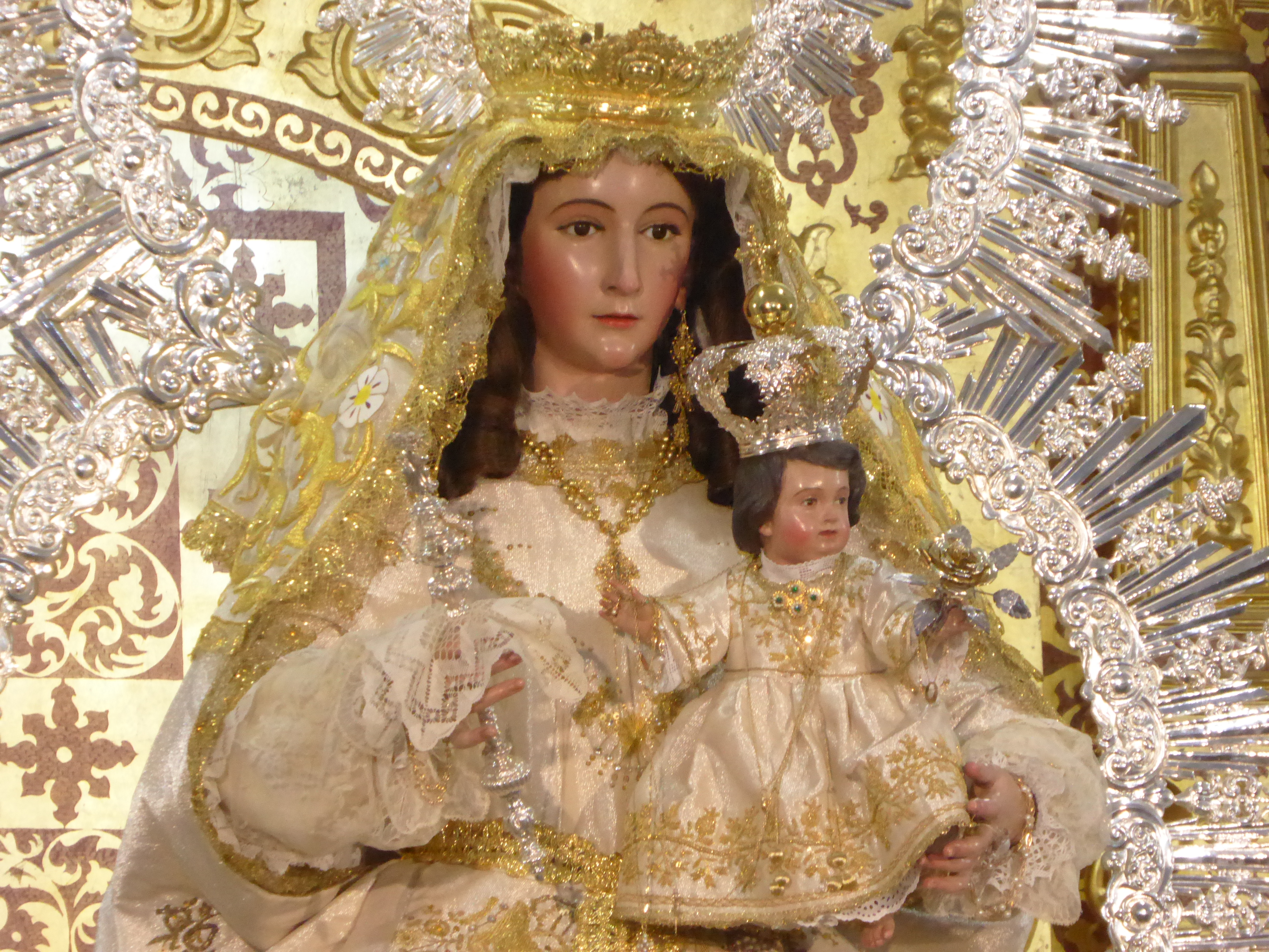 Imagen de Nuestra Señora de Piedras Albas, El Almendro, Huelva, España.